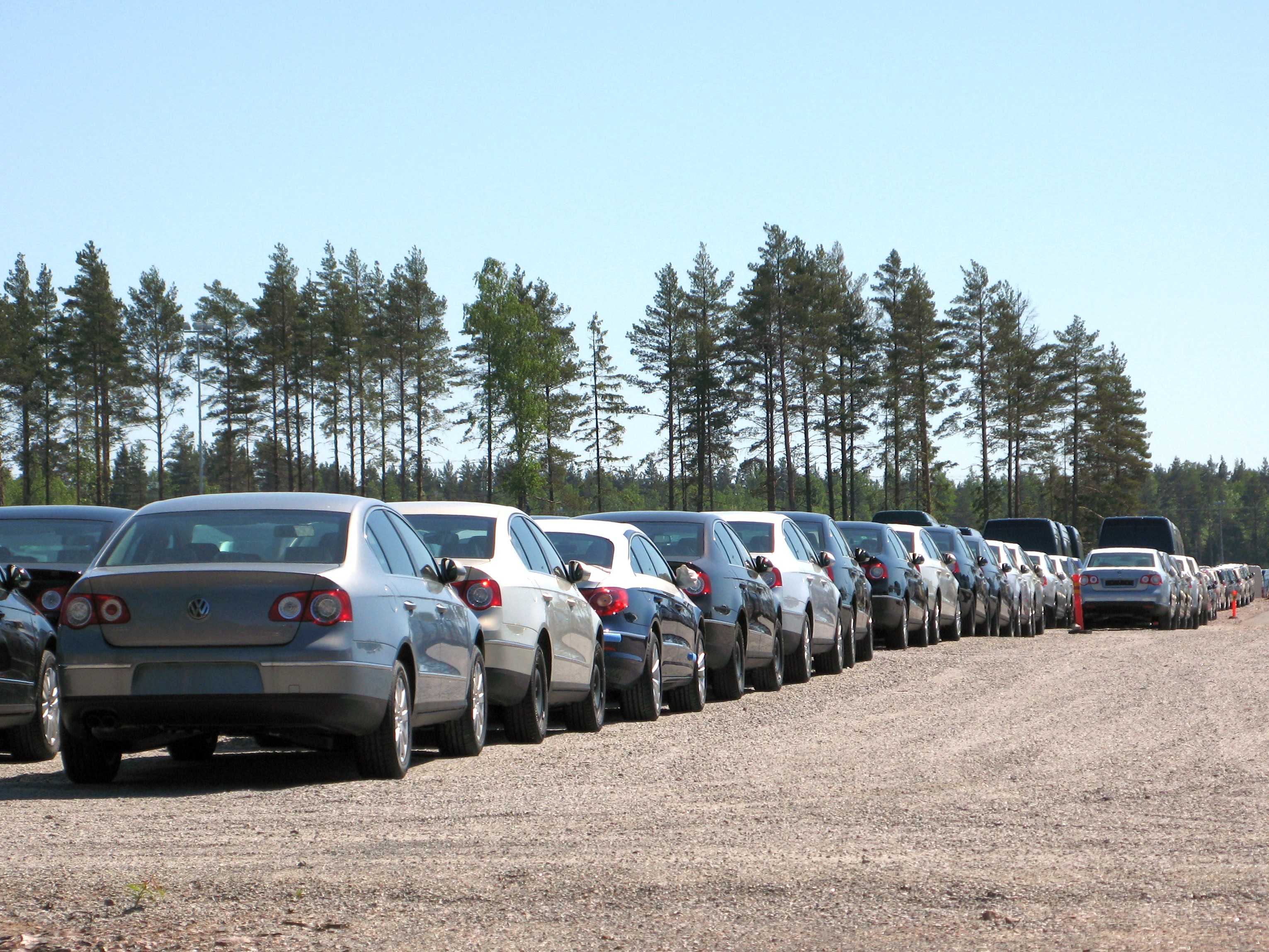 Hundreds of unsold Volkswagens were stored in the Finnish forest in summer 2009. Cars were the way to Russia, but the economic crisis stopped deliveries.